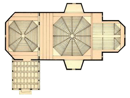 Biserica de lemn din Broşteni